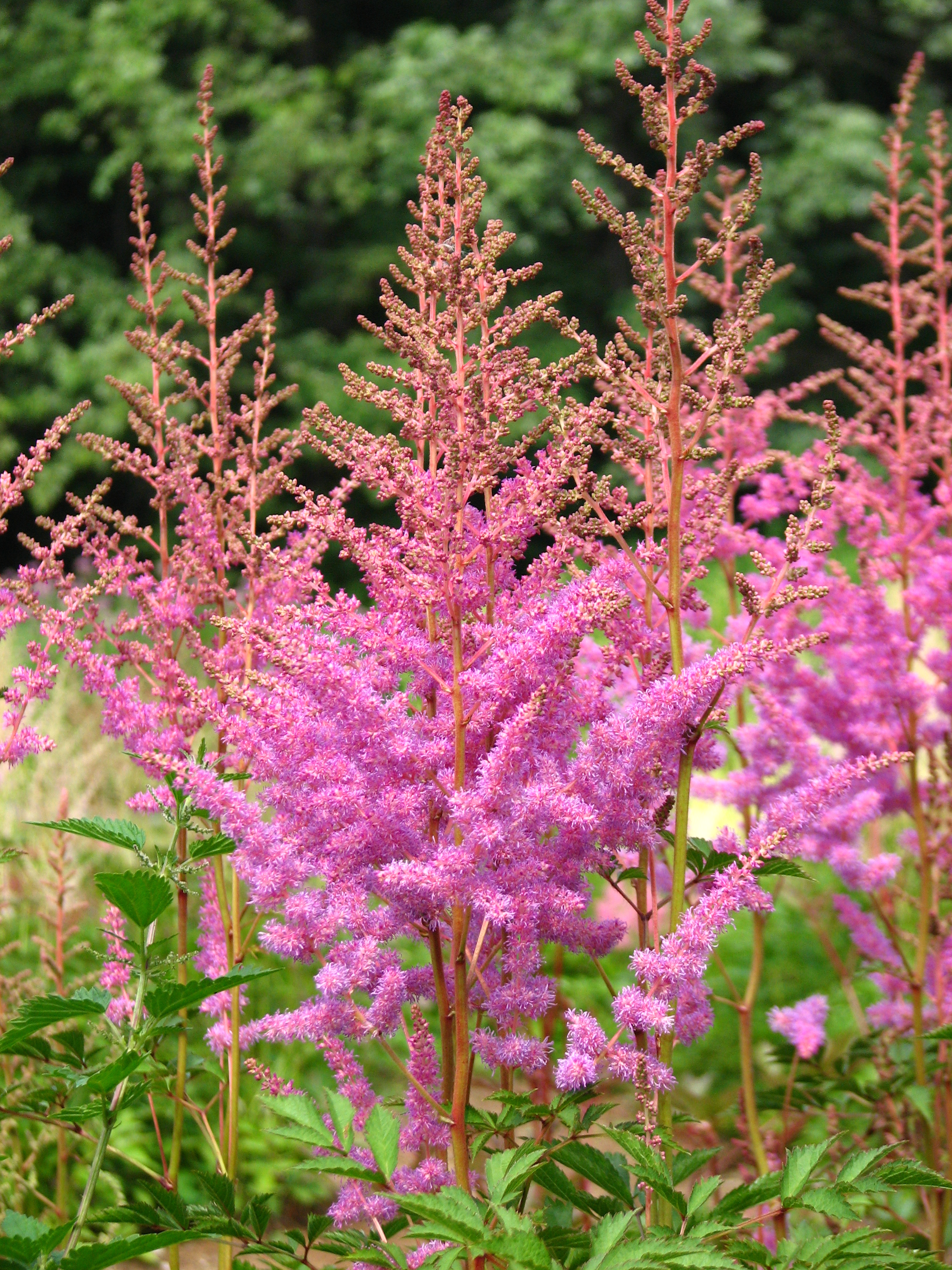 Astilbe 'Amethyst'. From the collection of the Main Botanical Garden of Academy of Sciences in Moscow (perennials plot).